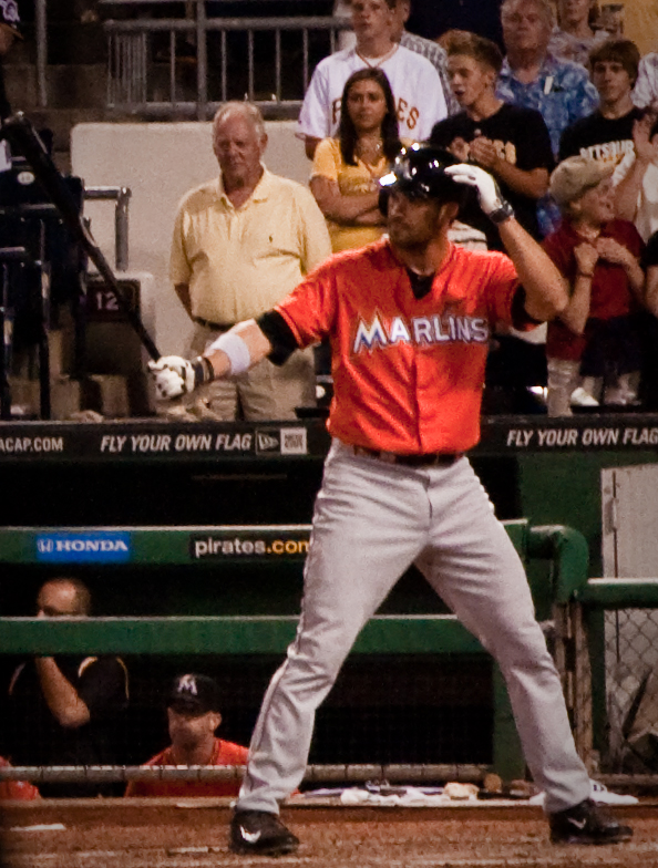 Garrett Jones